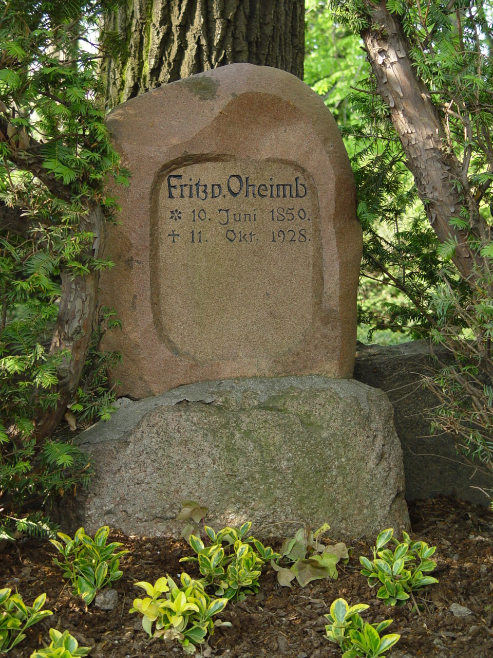 Fritz von Oheimb's grave in Wojsławice Arboretum, Lower Silesian Voivodship, Poland